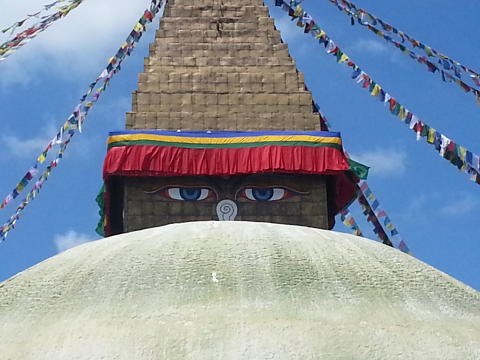 NepalianTemple